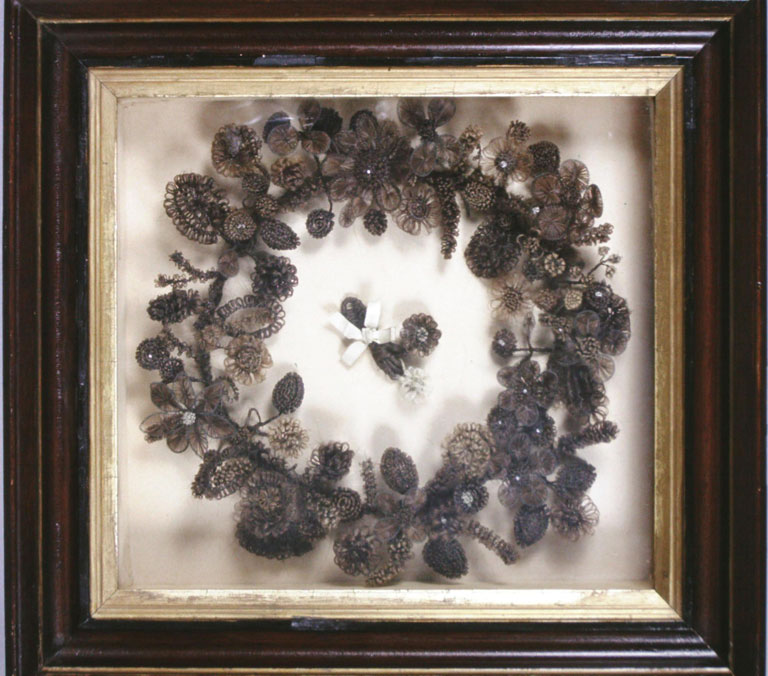 A hair wreath in the permanent collection of The Children’s Museum of Indianapolis